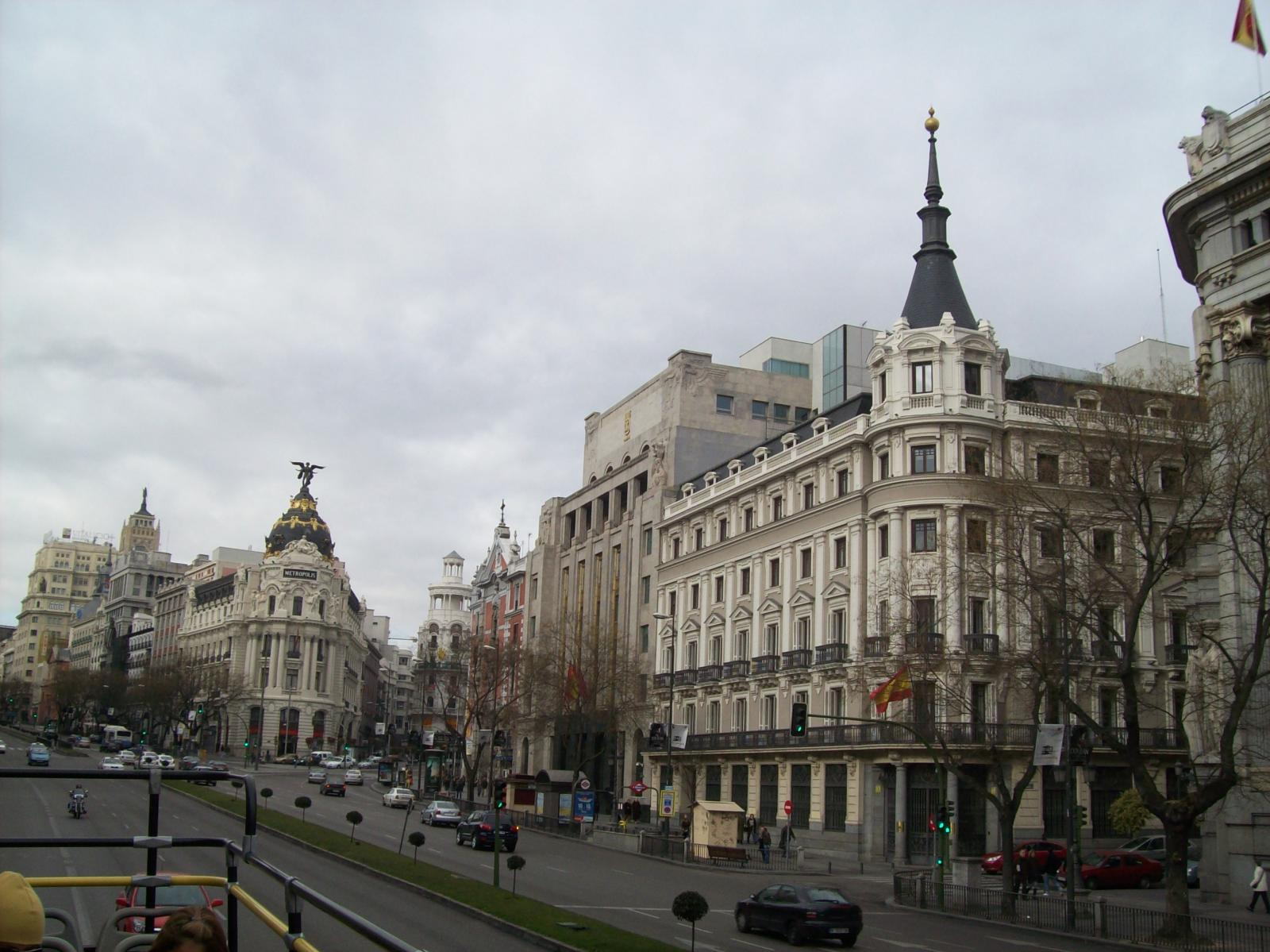 Calle de Alcalá (street) in Madrid (Spain). In the background, the Metropolis Building (1911).